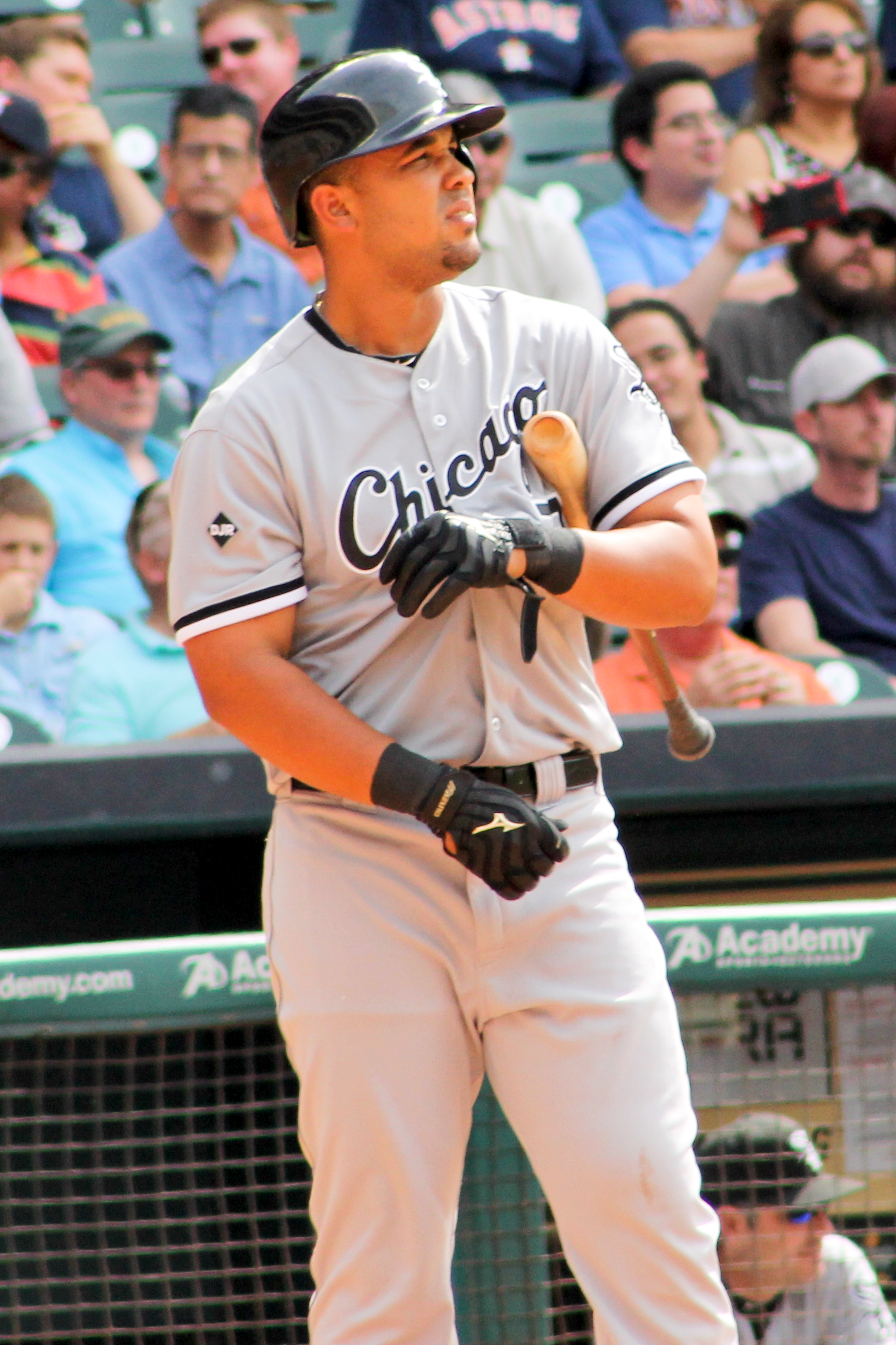 Major League Baseball player José Abreu at Minute Maid Park during a 2014 game.